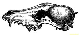 An illustration of a golden jackal skull with horn.